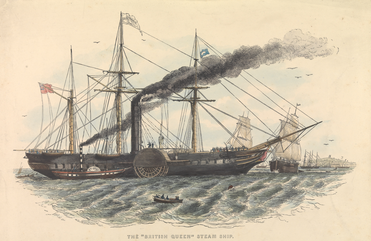 Hand-coloured wood engraving of the British Queen (1838) and the paddle steamer Sylph sitting alongside, starboard view of both, PY0213